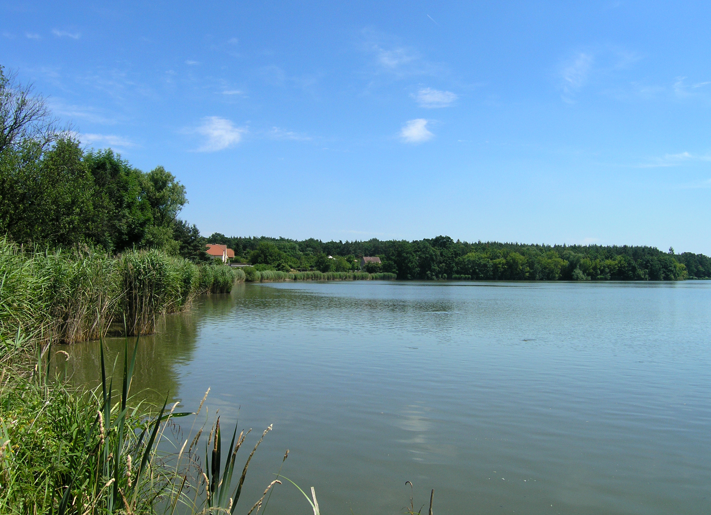 Buňkov pond in Břehy, Czech Republic